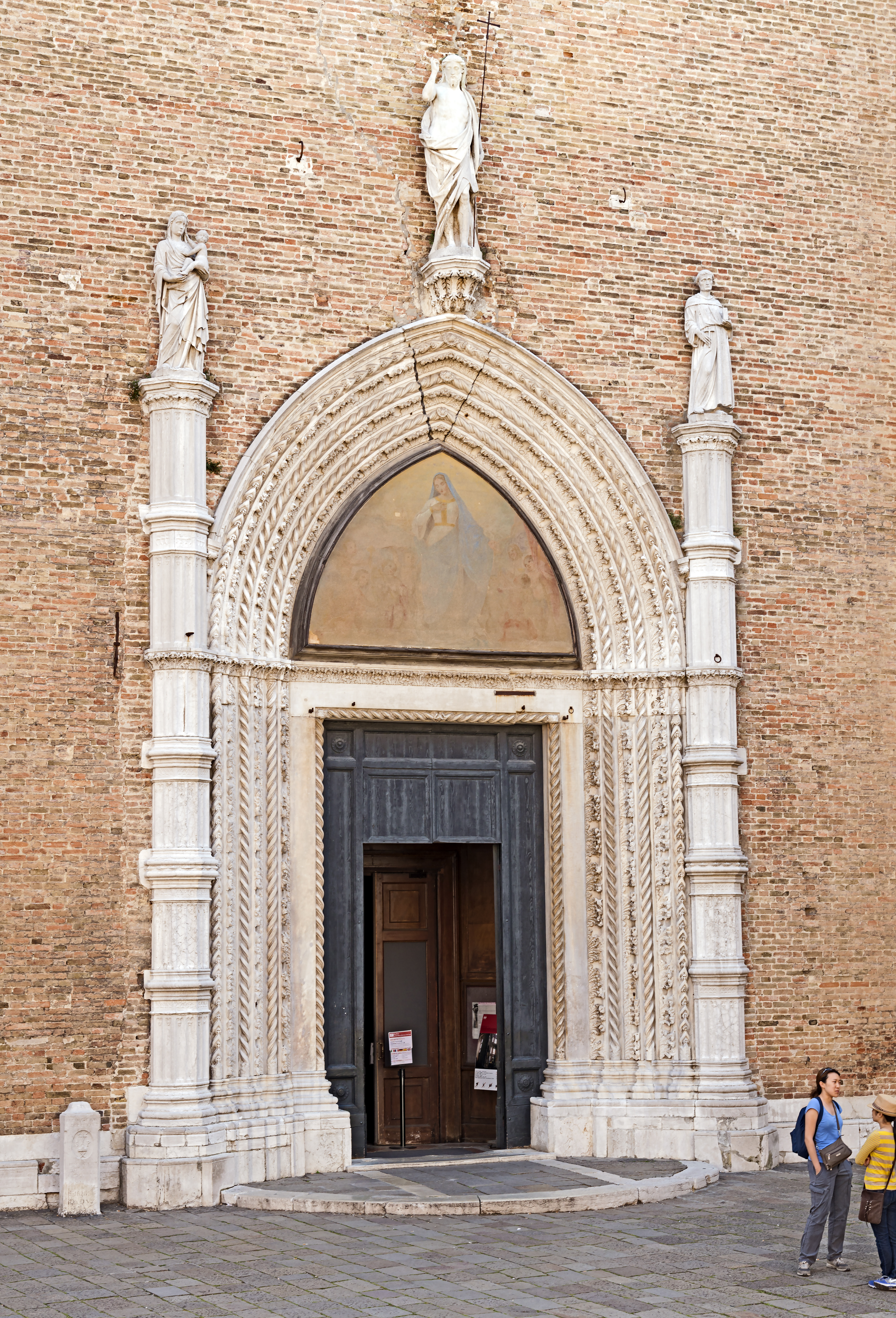 The Basilica di Santa Maria Gloriosa dei Frari, usually just called the Frari in Venice. Gothic portal by Bartolomeo Bon (1450) with both sides, a "Virgin and Child" and "San Fransesco". The statue of the "Risen Christ" by Alessandro Vittoria (1581).